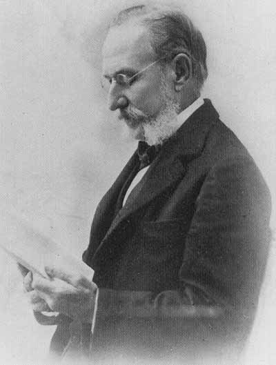 Cuban researcher Carlos J. Finlay reading.